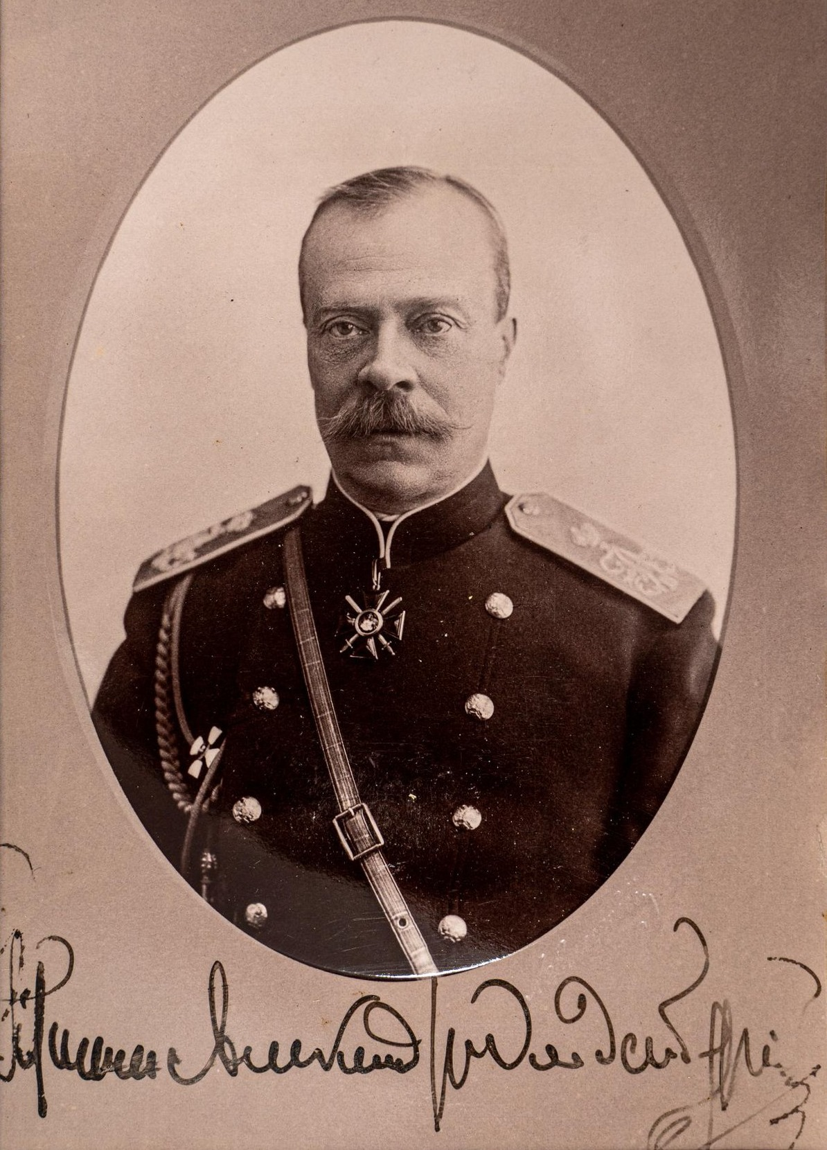 Oldenburg of, Duke Alexander Petrovich.